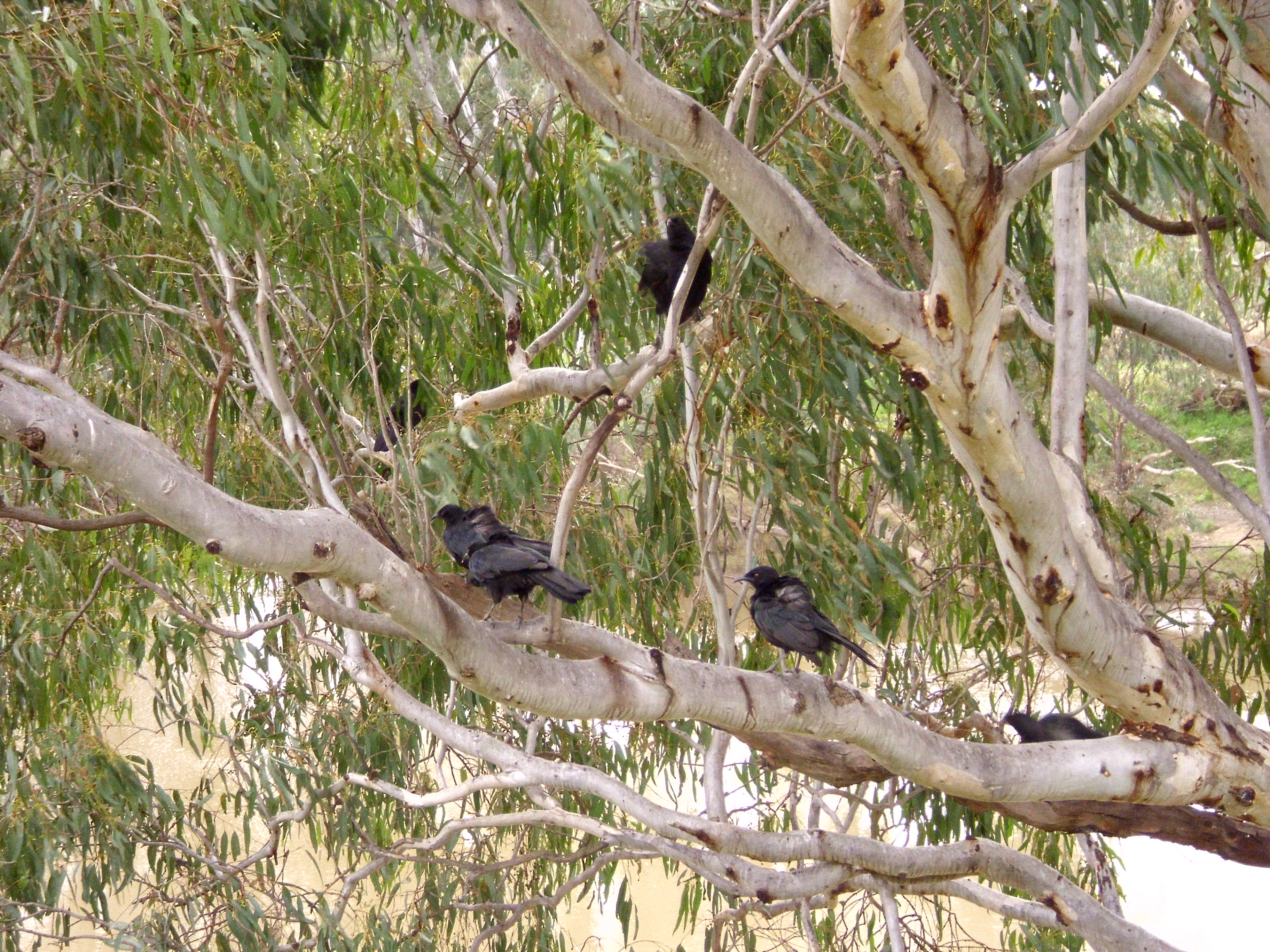 White-winged Choughs (Corcorax melanorhamphos) in a River Red Gum growing on the banks of the Murrumbidgee River in Wagga Wagga, New South Wales.